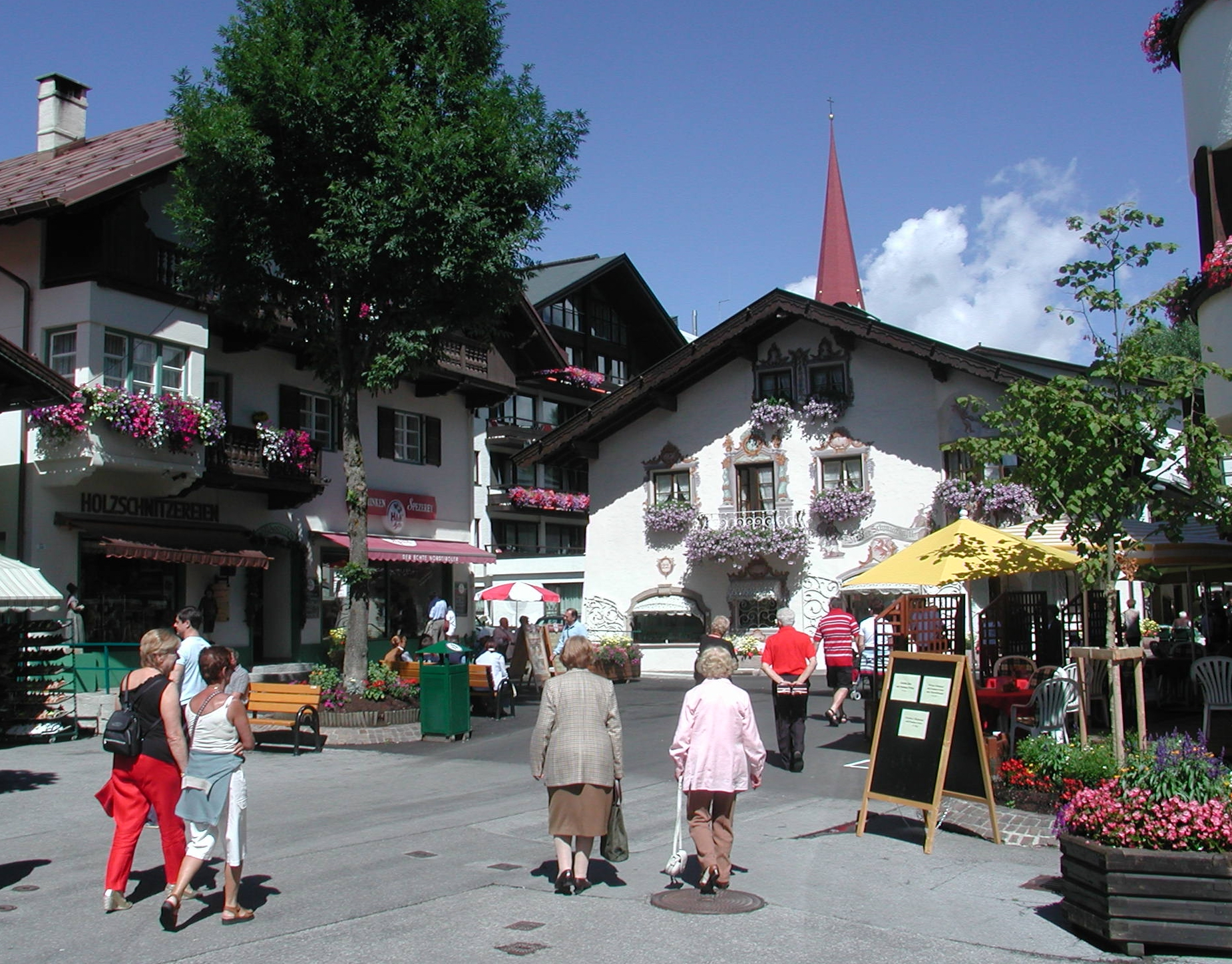 Seefeld in Tirol, Austria the town Made by me, Paolo da Reggio